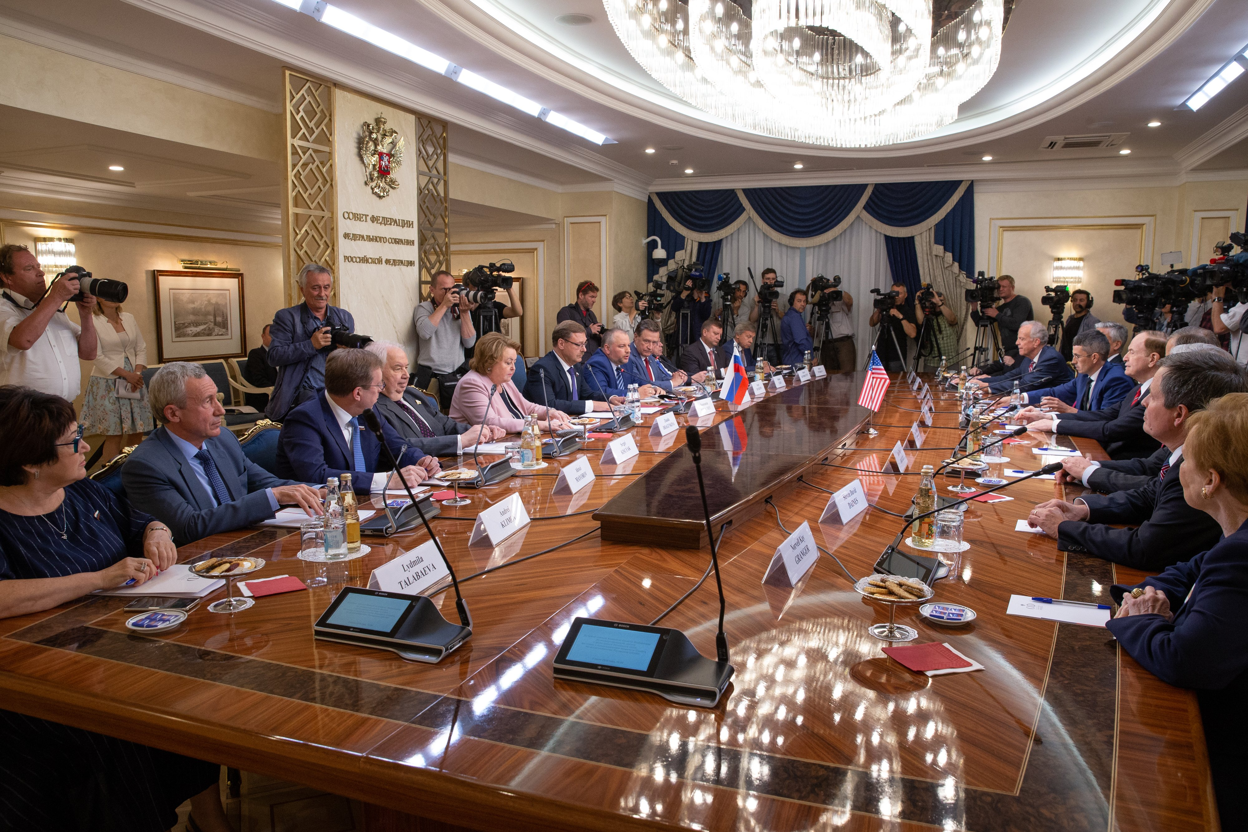 Konstantin Kosachev met with a delegation of the US Congress